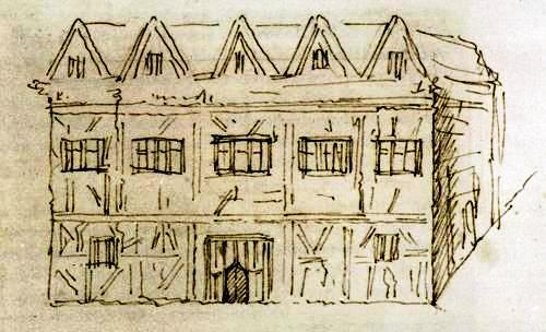 Sketch of Shakespeare's home New Place done by George Vertue in 1737 from contemporary descriptions when he visited Stratford-on-Avon